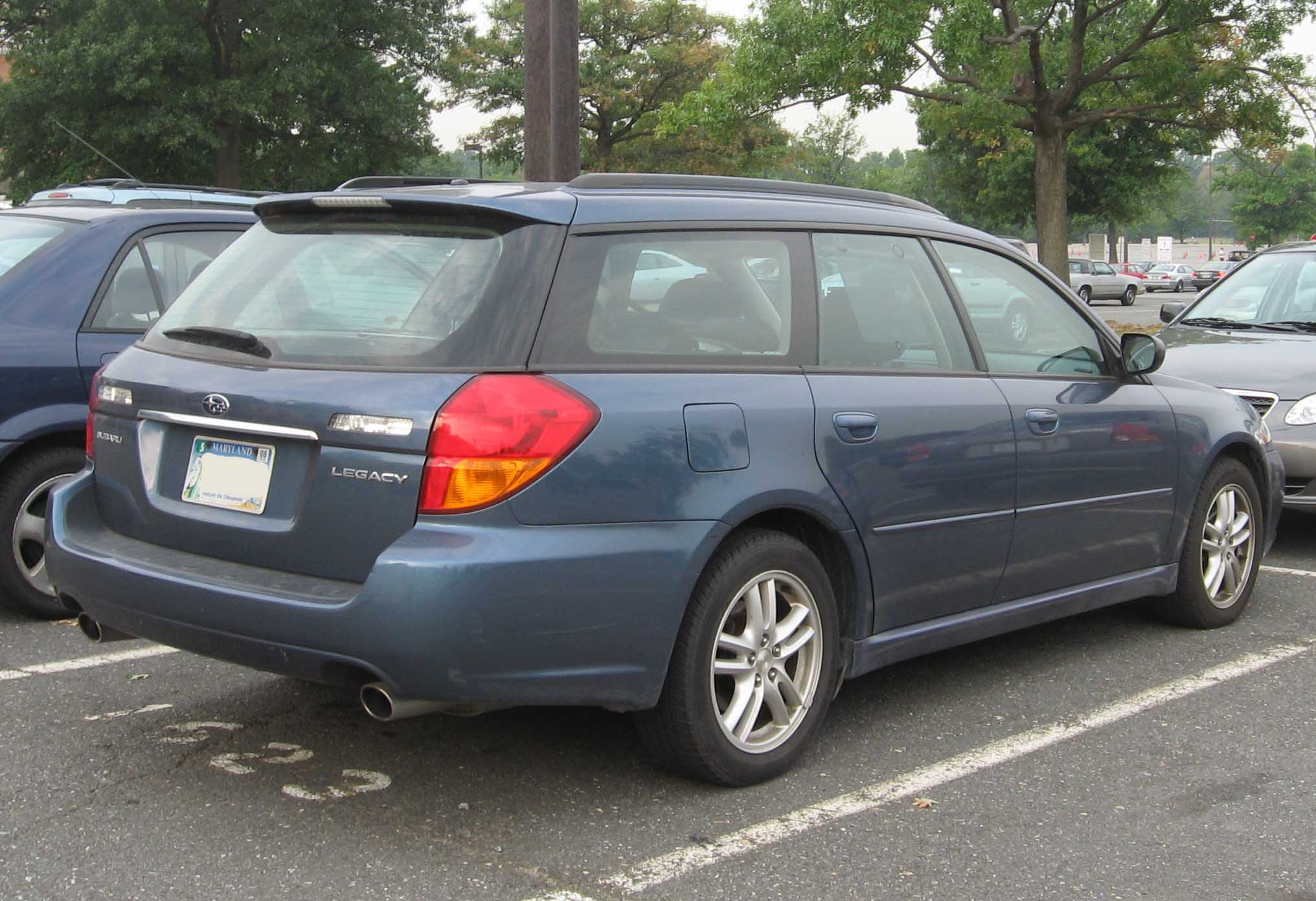 2005 Subaru Legacy 2.5i Touring Wagon (BP9) shown in Atlantic Blue Pearl, photographed in USA.